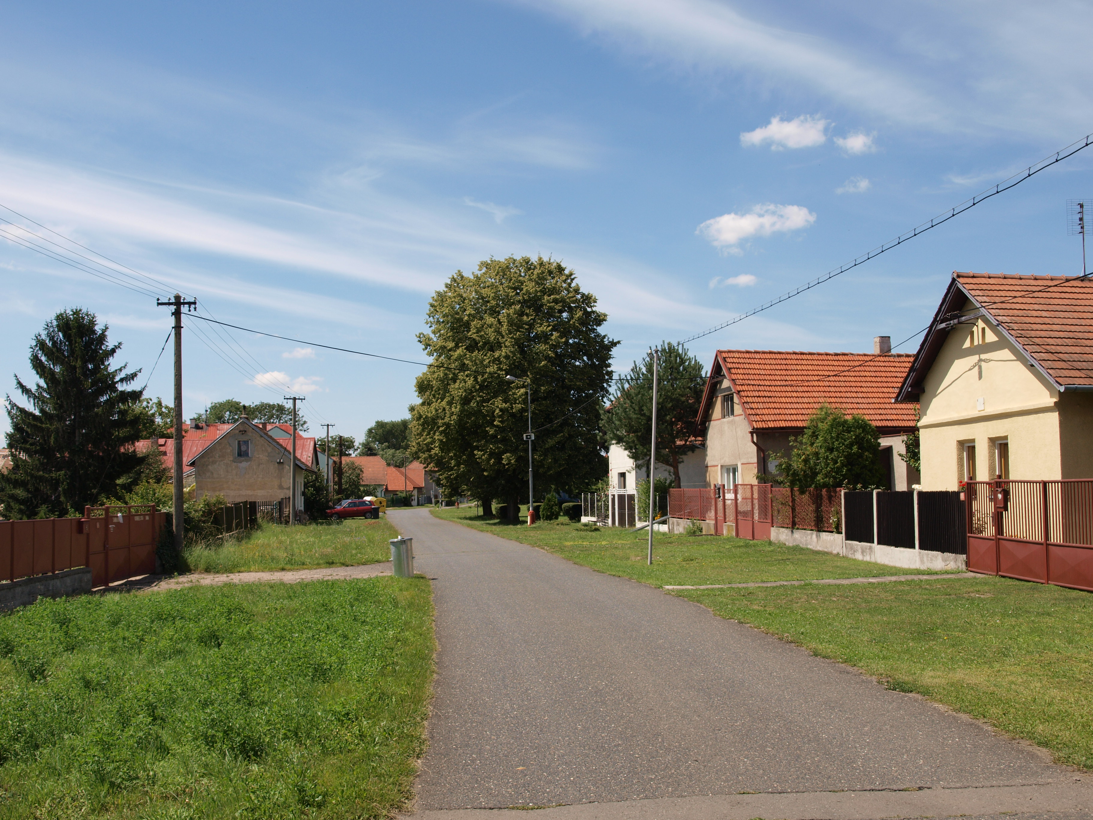 Way to village square, Šlotava (part of Budiměřice), Nymburk District, Central Bohemian Region